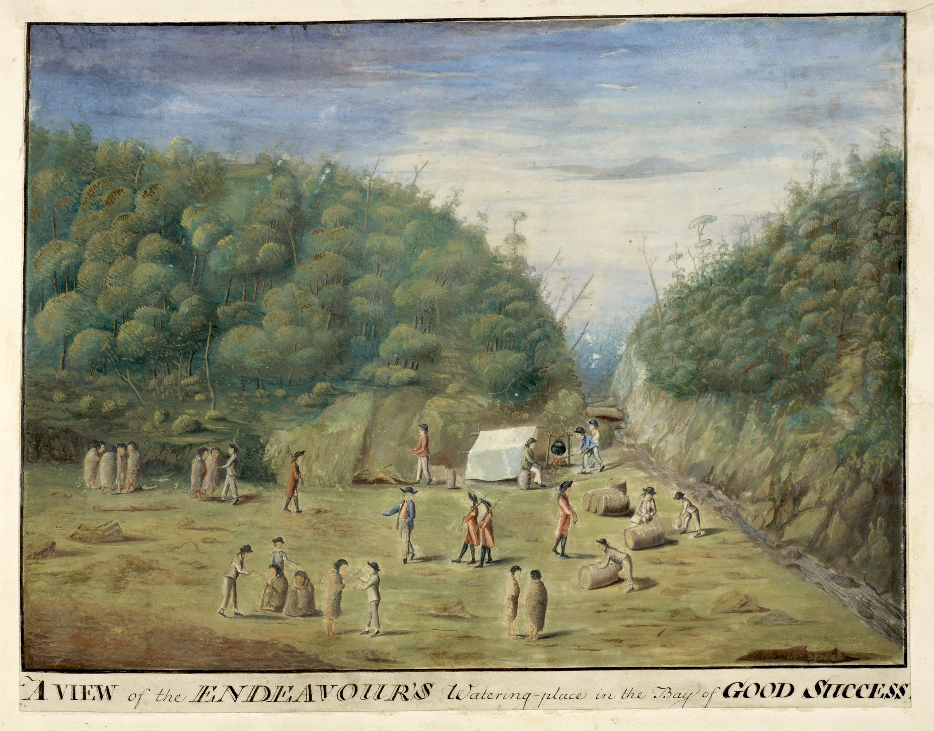 A view of the Endeavour's watering place in the Bay of Good Success, Tierra del Furgo, with natives. January 1769. [Lower drawing]